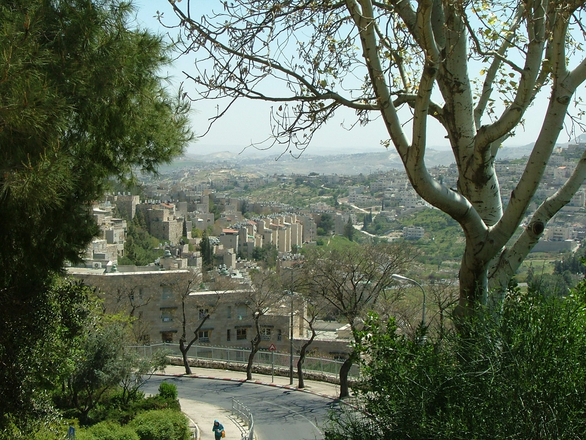 A view of East Talpiot.